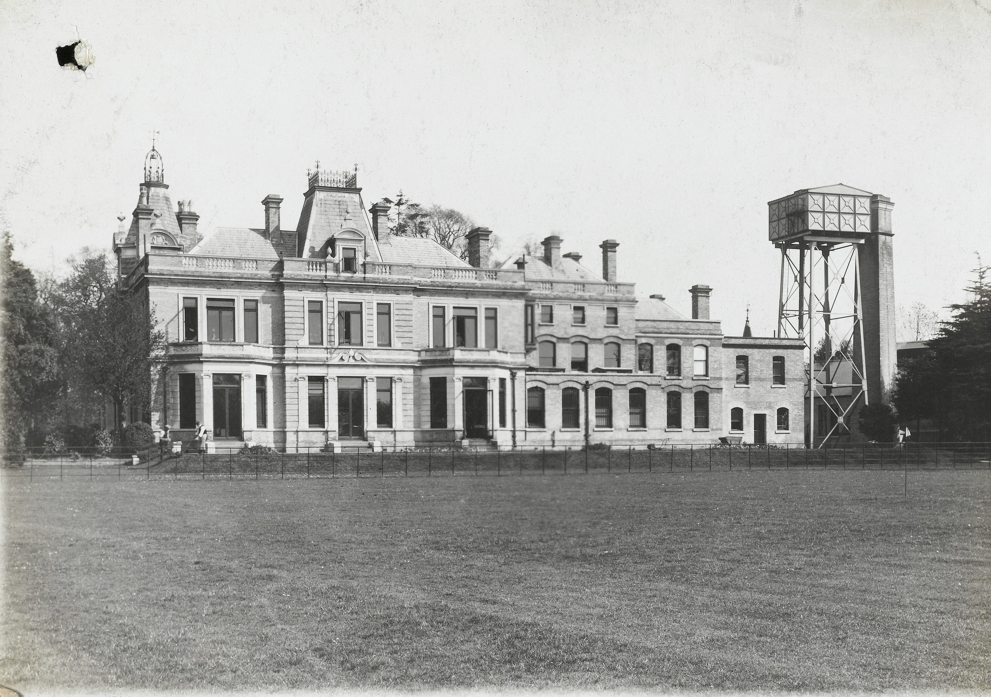 Photo of Langley Court. Site of the Wellcome Physiological Research Laboratories main building. Archives & Manuscripts Keywords: Wellcome Physiological Research Laboratories